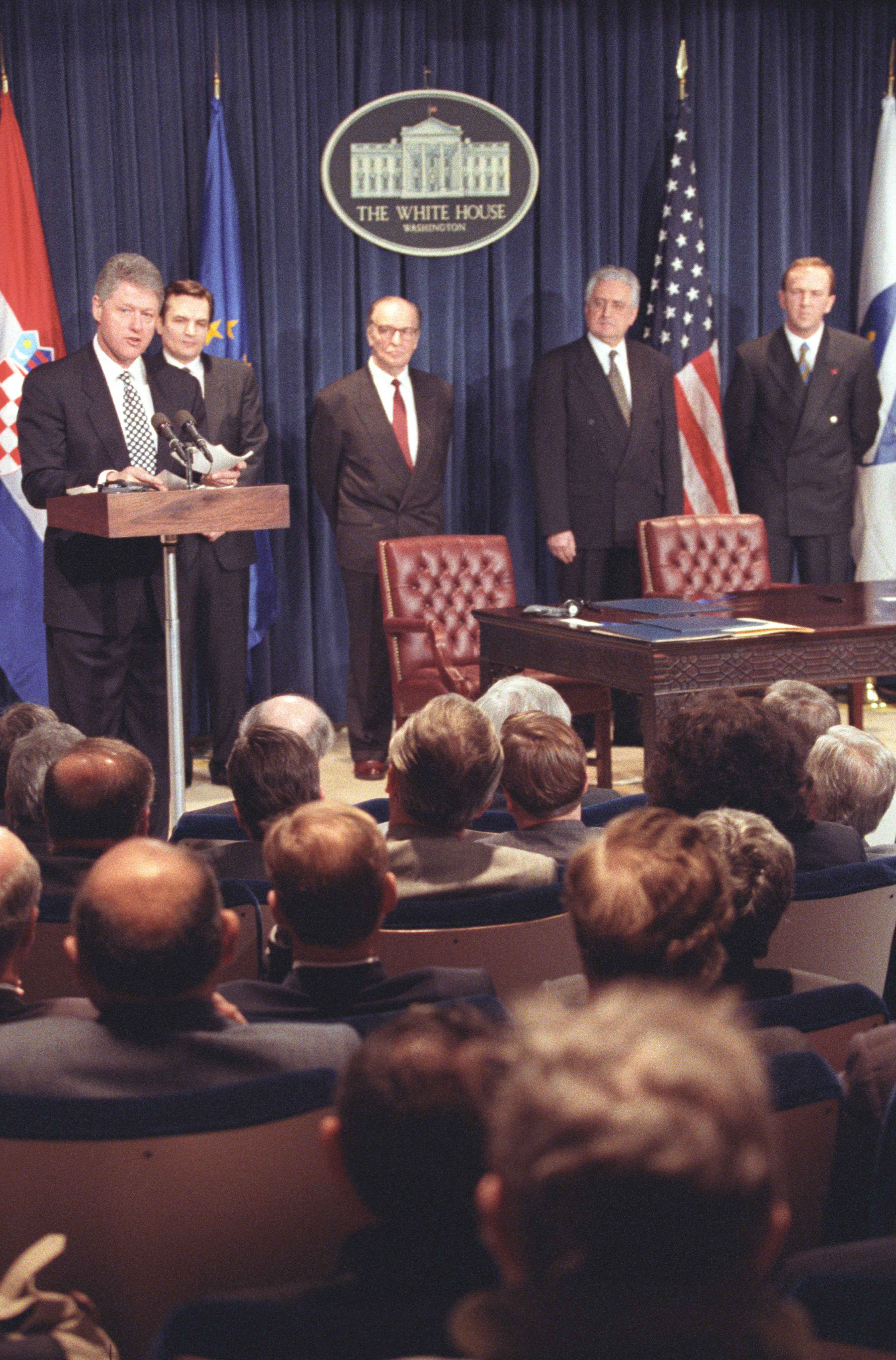 March 18, 1994: President Clinton addressing the Croat-Muslim Federation Peace Agreement signing ceremony in the Old Executive Office Building. (Credit: William J. Clinton Presidential Library) Hosted by the Clinton Library and the Clinton Foundation, the document release was spearheaded by CIA’s Historical Review Program (HRP), which identifies, collects and produces historically relevant collections of declassified materials. The Bosnia collection—the youngest ever released in HRP’s 20-year existence—is available online at A video recording of the symposium is available at